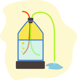 An airtight jar contains a bunch of water. The green pipe is started as a siphon so that water starts flowing out of the pipe. Because the pipe lets out water, the pressure on the inside of the jar is less than the pressure outside, so it causes air to be sucked in through the orange pipe. Because the pressure is going to tend to being the same inside and outside of the jar, the water is going to flow out of the pipe at the same speed and amount.